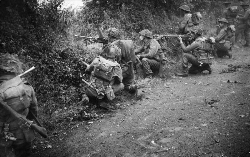 Infantry of the 6th Royal Scots Fusiliers, 15th (Scottish) Division, in action in a sunken lane during Operation 'Epsom', Normandy, 26 June 1944. Troops of 6th Royal Scots Fusiliers, 15th (Scottish) Division, fire from their positions in a sunken lane during Operation 'Epsom', 26 June 1944.